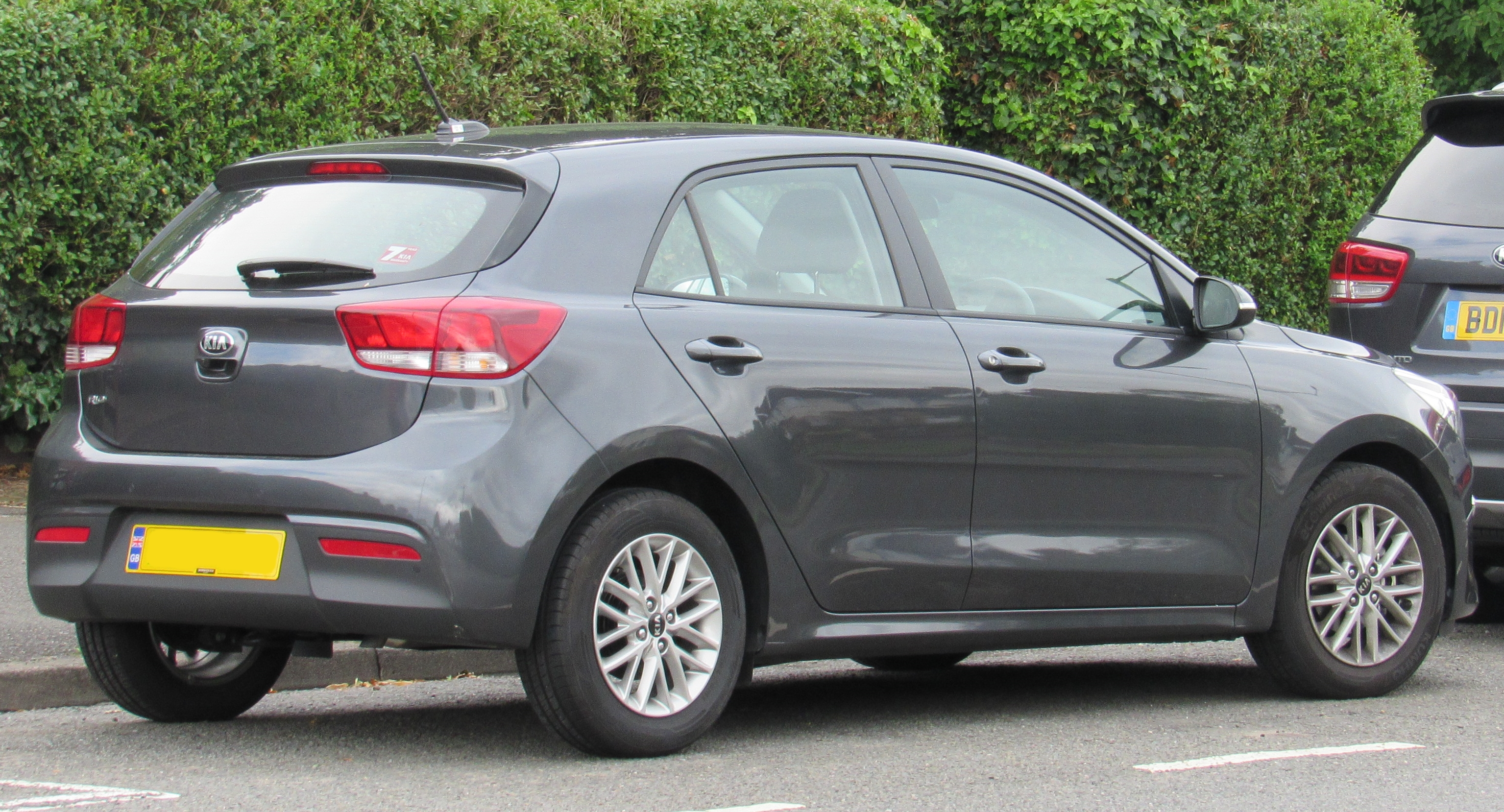 2017 Kia Rio 2 1.3 Rear Taken in Warwick